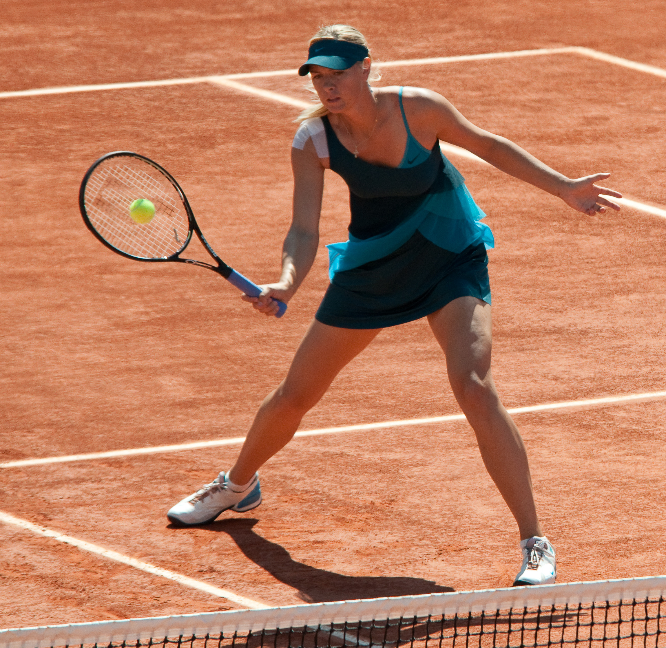 Maria Sharapova at 2009 Roland Garros, Paris, France